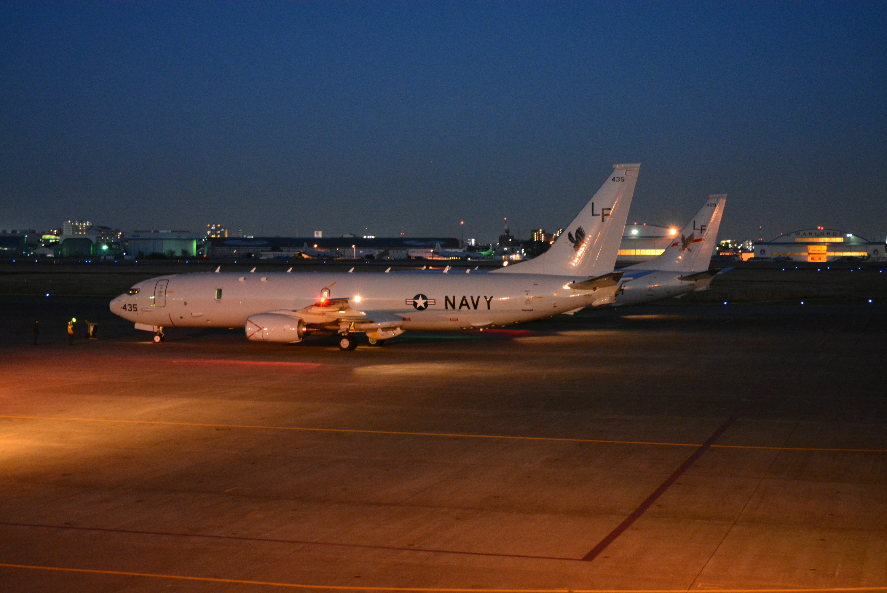 Two U.S. Navy Boeing P-8A Poseidon (BuNo 168429, 168435) of Patrol Squadron VP-16 "War Eagles" refuel at Naval Air Facility Atsugi. The squadron's landing at NAF Atsugi was part of the Poseidon´s inaugural operational deployment.